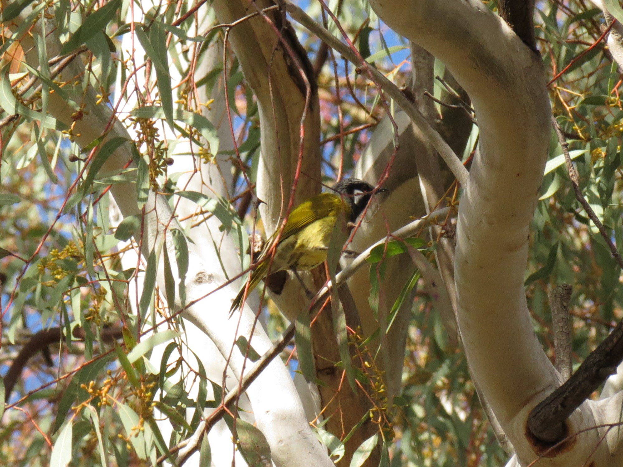 Lichenostomus leucotis (Latham, 1801), White-eared Honeyeater, Black Mountain, Canberra, ACT, 11 June 2013